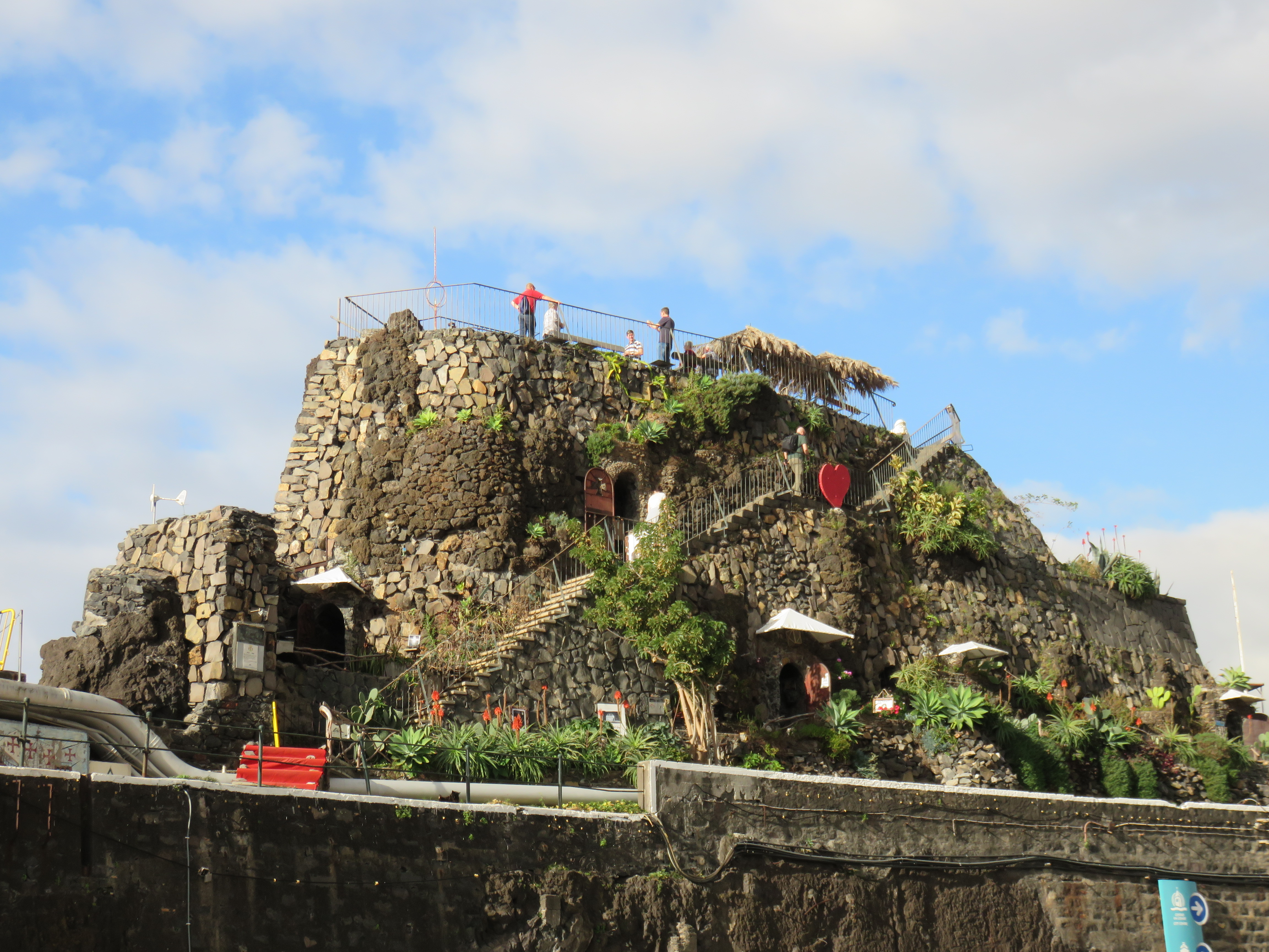 Forte de São José, "Principado da Pontinha", Funchal - Madeira Island